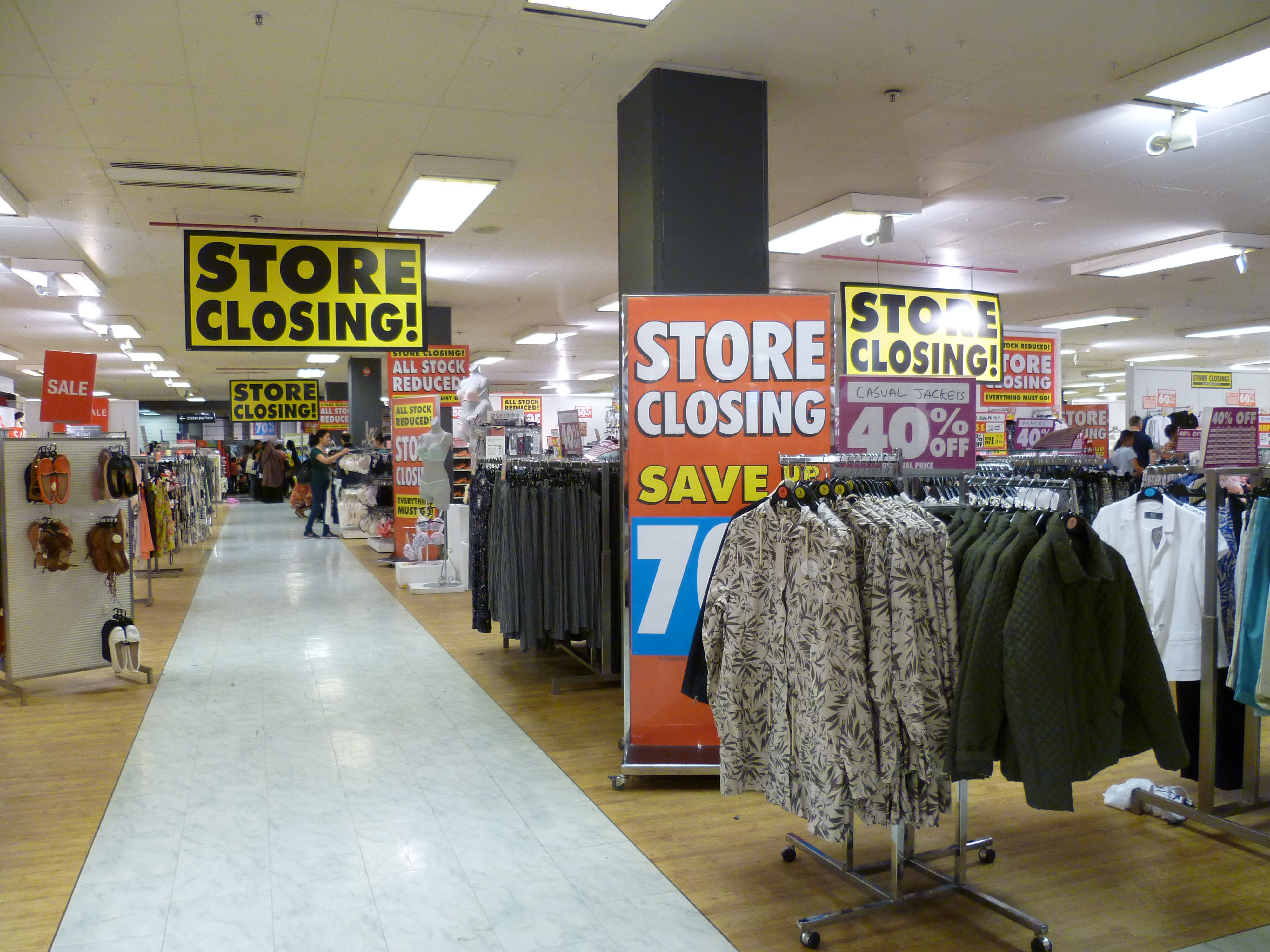 British Home Stores closing down sale Wood Green, London 3 August 2016